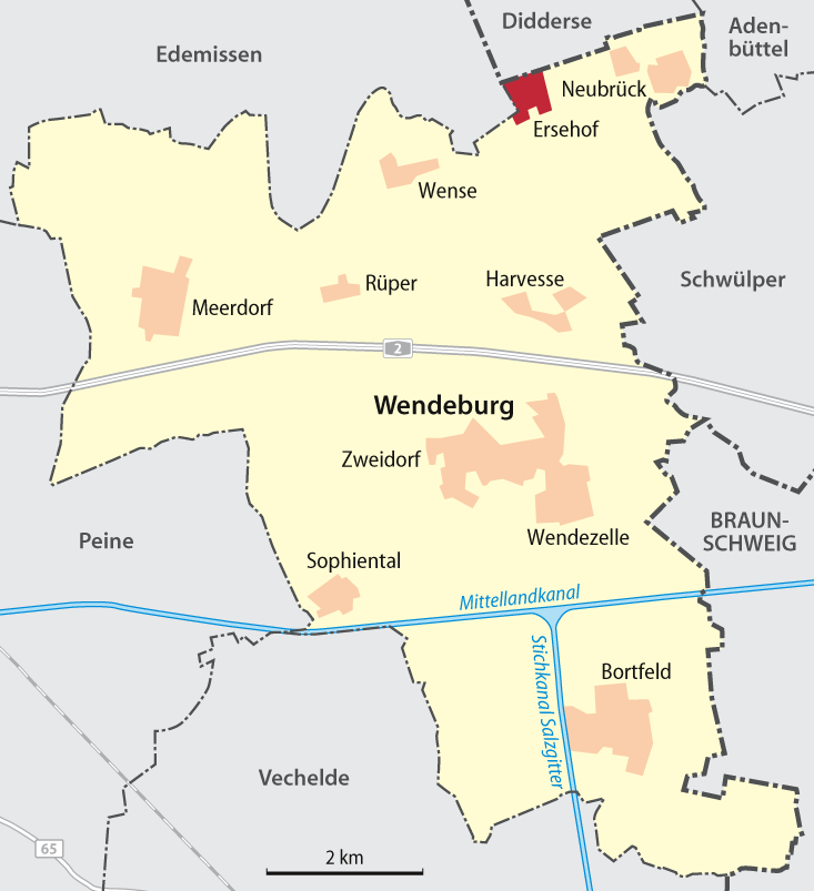 Map of Wendeburg, Ersehof highlighted